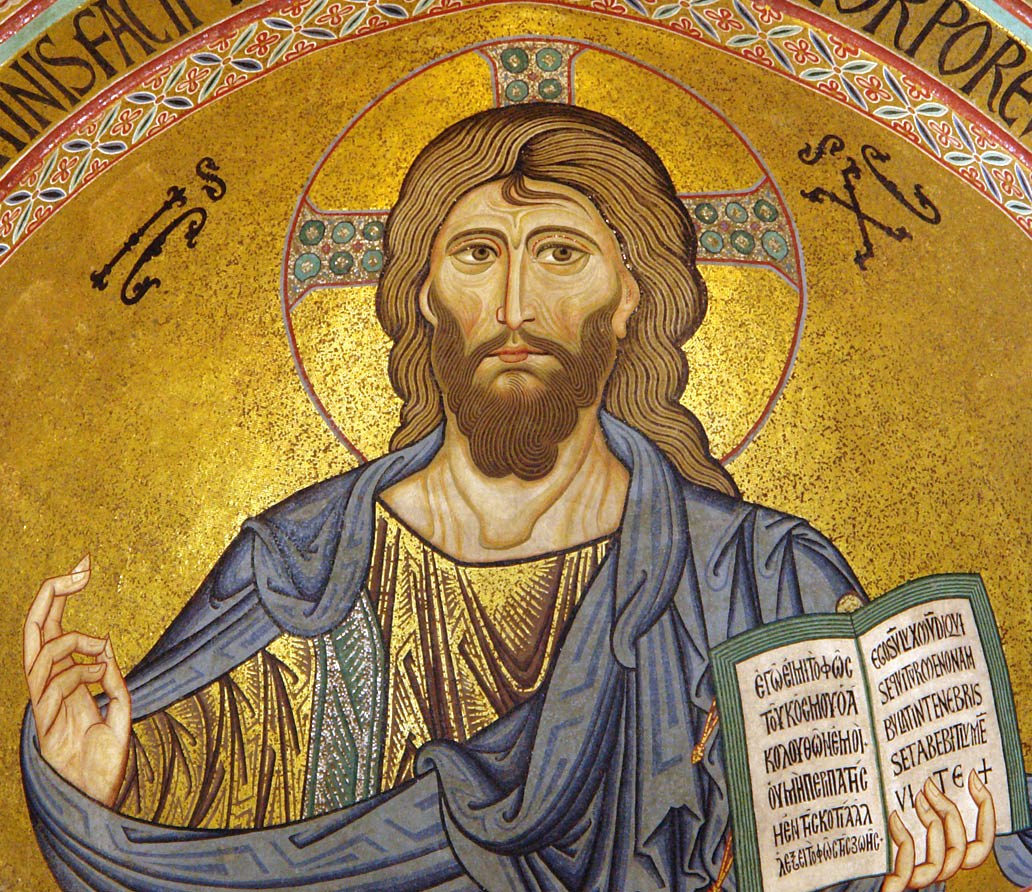 Christus Pantocrator in the apsis of the cathedral of Cefalù. Edited from Image:Cefalu Christus Pantokrator.jpg